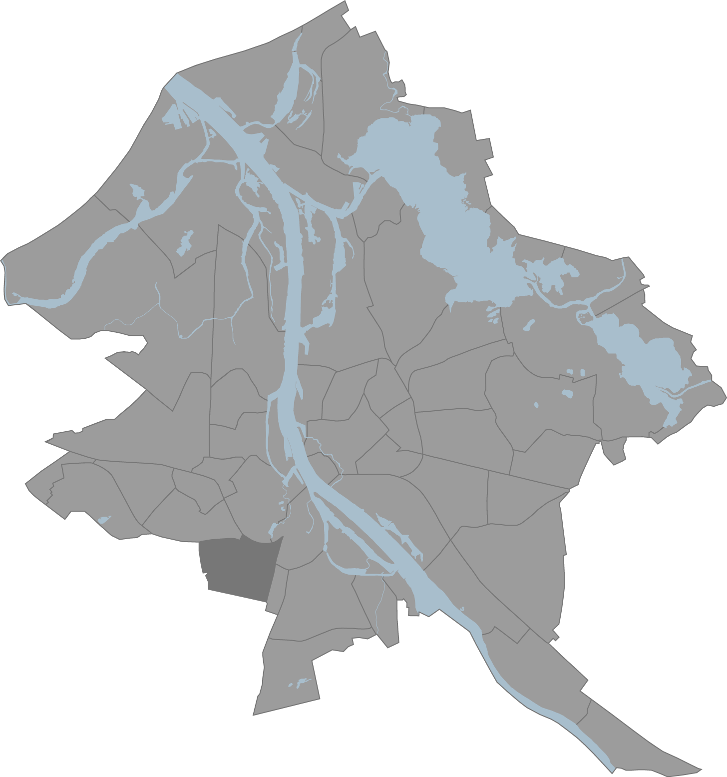 A map of Riga, Latvia with the eponymous commune highlighted